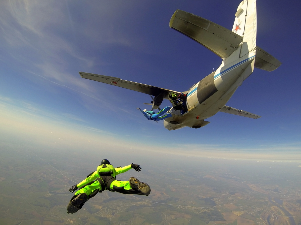 Skydiving from a Let L-410